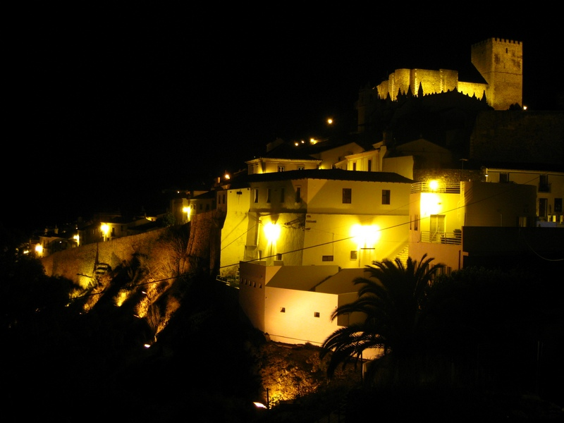 Mertola by night, view on city and castle.